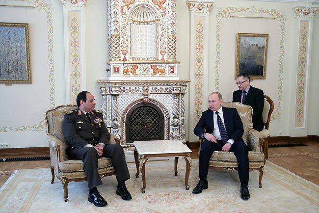 President Vladimir Putin hold talks with Field Marshal Abdel Fattah el-Sisi the first deputy prime minister, minister of Defence and military production during his visit to Russia in 2013 to negotiate an arms deal.